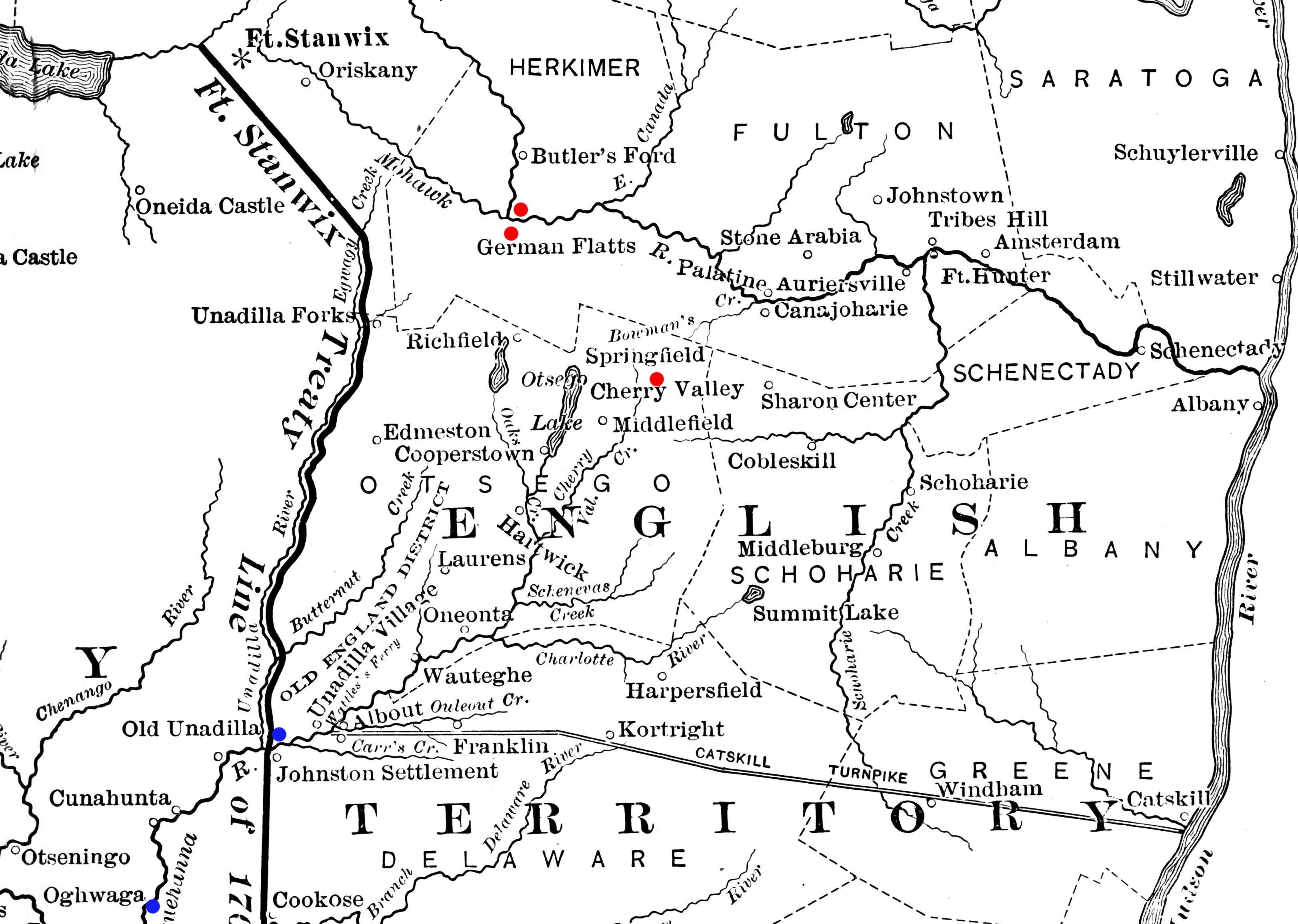 Map detail of New York's western frontier in 1778. Annotated on the map are markings showing points of interest related to the Attack on German Flatts. The approximate locations of the Forts Dayton and Herkimer on either side of the Mohawk River are marked in red, as is the community of Cherry Valley. The Indian towns of Unadilla and Onaquaga (the latter spelled "Oghwaga" on the map) are marked in blue.